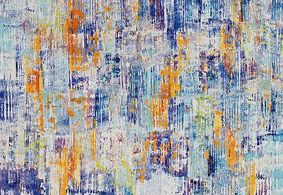 Artwork Abstract Art of Bernd Luz in Acryl-Technology on canvas